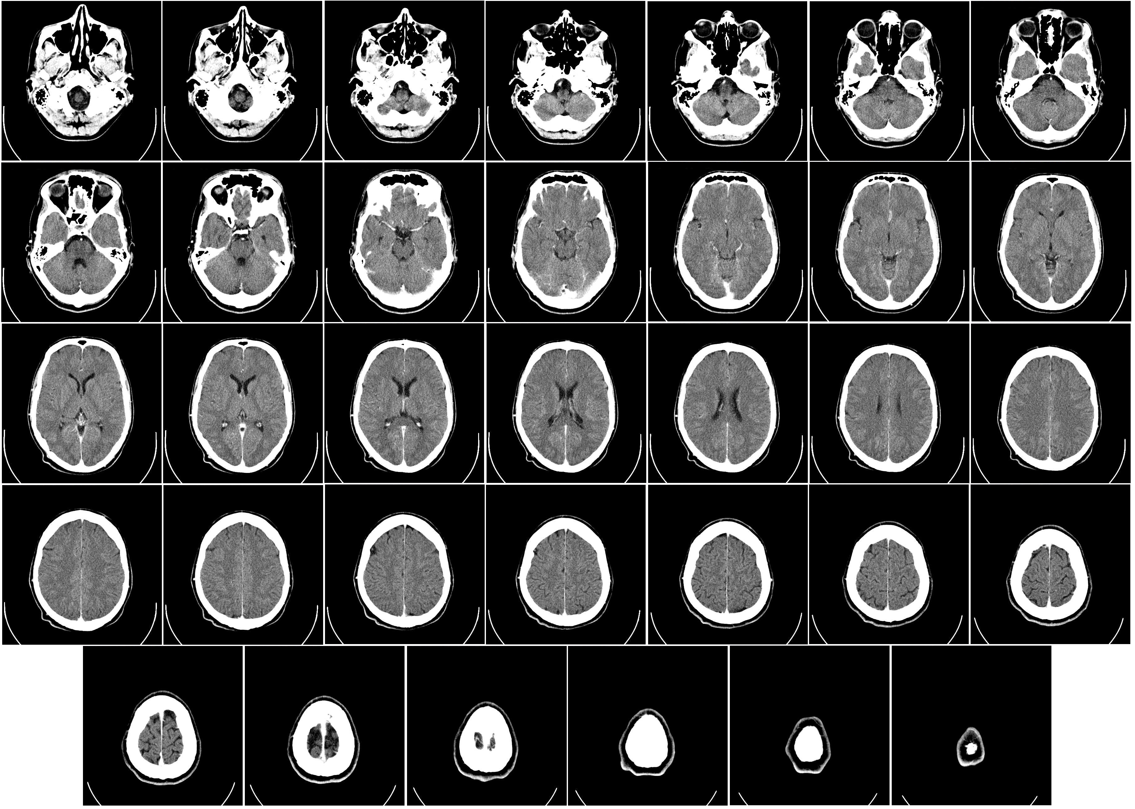 Computer tomography of human brain, from base of the skull to top. Taken with intravenous contrast medium. It was taken Mars 23, 2007 on the uploader, after a 20 minute episode of homonymous hemianopsia with loss of the left visual field, but nothing strange was found. Three episodes of scotoma occurred in the following years, whereof the last one was scintillating (depiction). Otherwise, there were no further neurological symptoms.